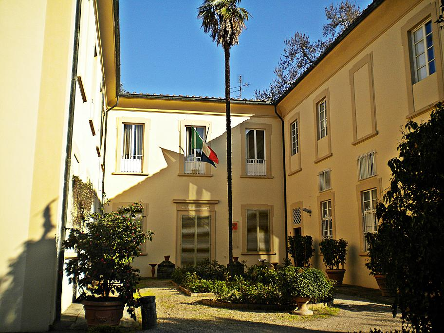 the villa now museum(Antonio Manzi)